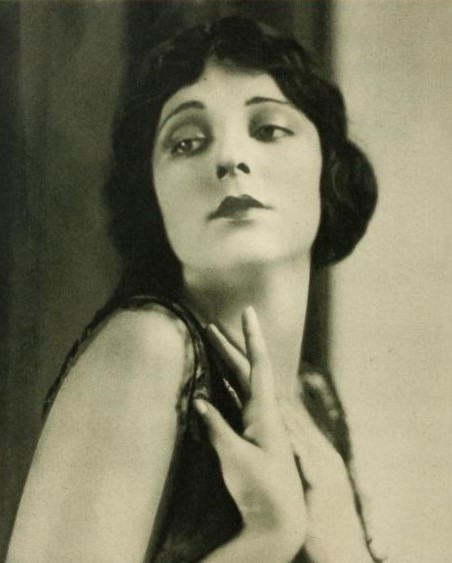 Publicity photo of Kathleen Key from Stars of the Photoplay. Kathleen Key, lineal descendant of Francis Scott Key, who wrote "The Star Spangled Banner," was born about twenty-three years ago. She played with Ince for three years, appearing opposite "Snowy" Baker in a series of Australian pictures, and was leading lady for Tom Mix. As a reward for her efforts she has been signed to a long-term contract by Goldwyn. She appeared in their production "Ben Hur," and seems destined for stardom very soon. She is five feet, six inches tall, and weighs 123 pounds. She has black hair and brown eyes. She is unmarried.